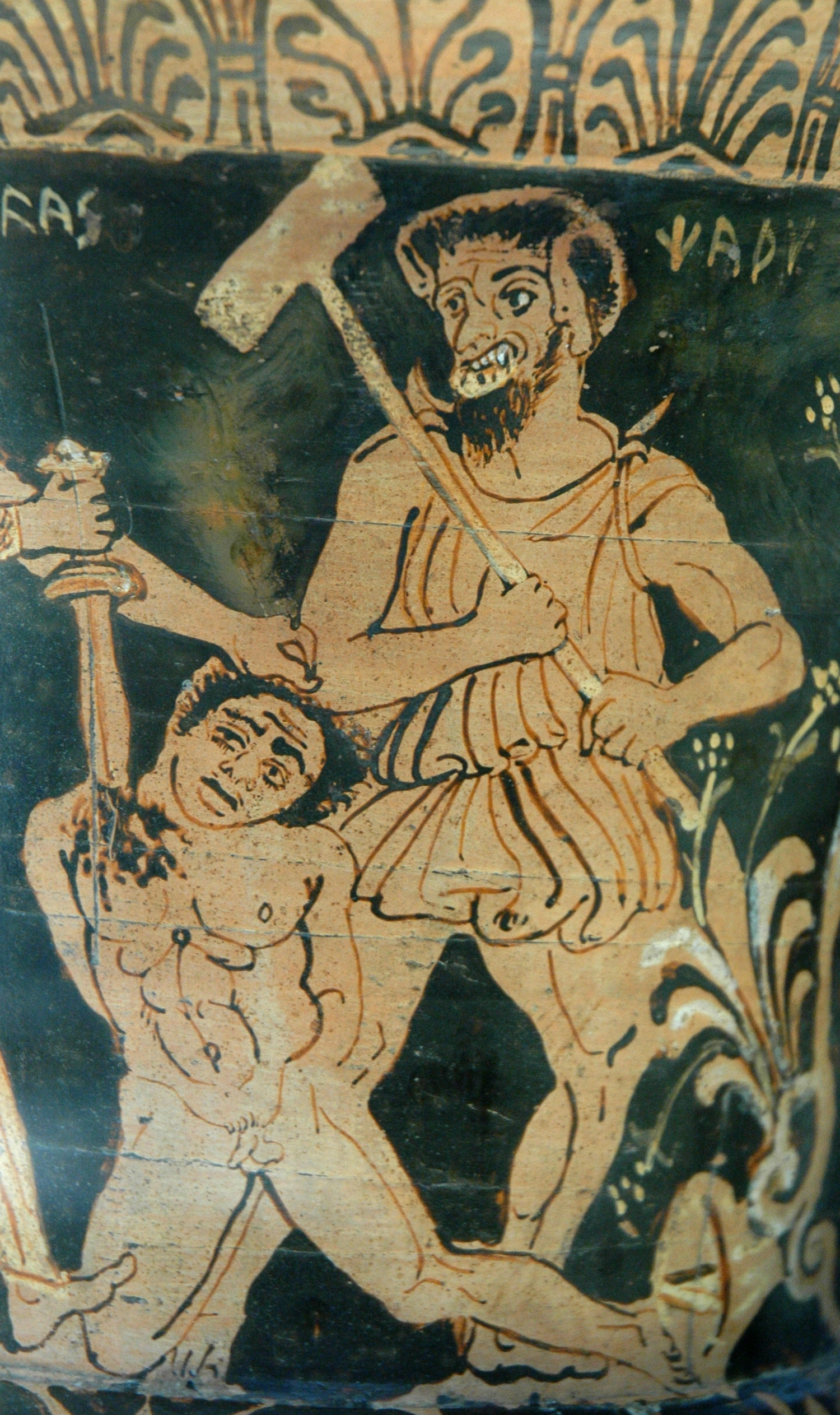 Charun armed with a hammer. Side A from an Etruscan red-figure calyx-crater representing Achilles killing a Trojan prisonner in front of Charun, the Etruscan demon of death, related to the Greek Charon. End of the 4th century BC-beginning of the 3rd century BC.